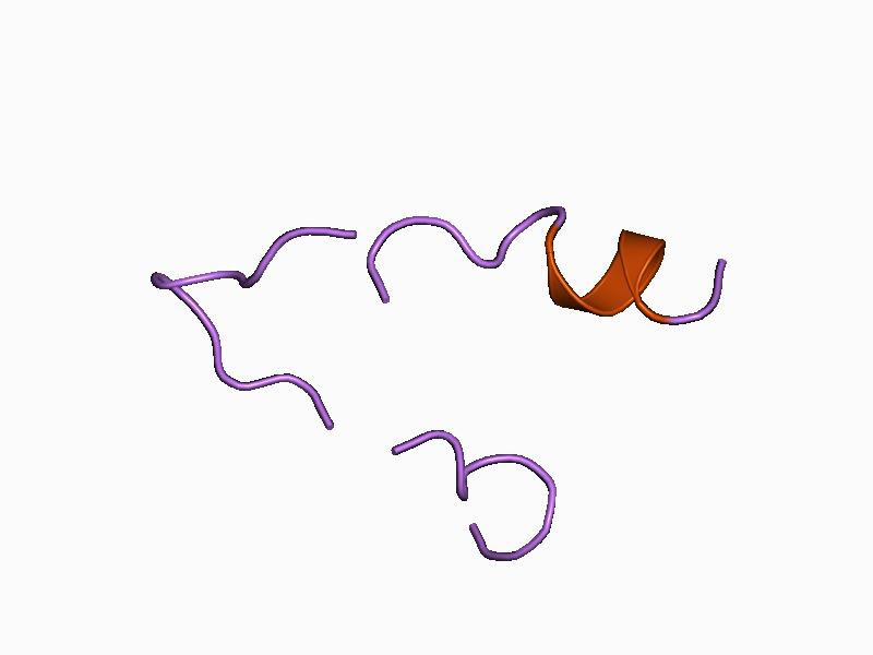 Cartoon representation of the molecular structure of protein registered with 1bh7 code.